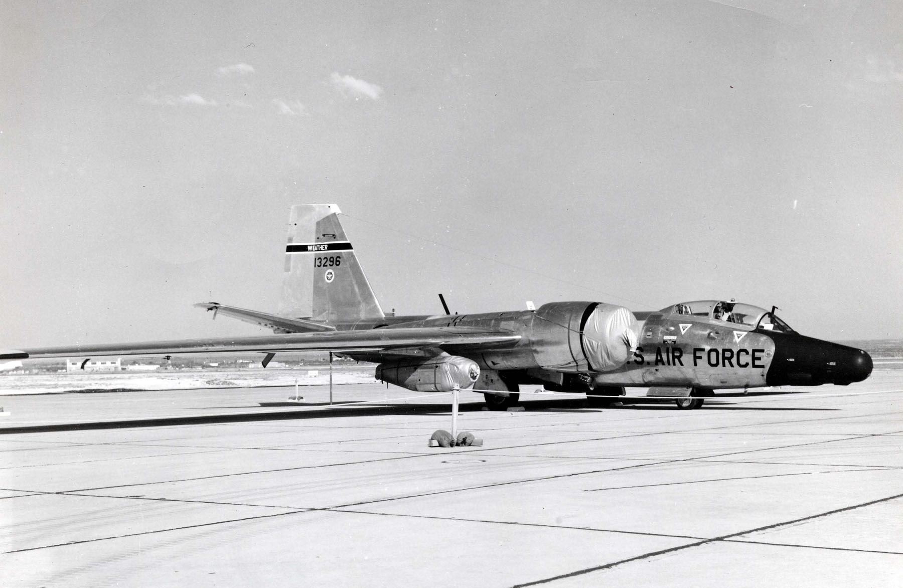 General Dynamics RB-57F Canberra 3/4 front view (S/N 63-13296) Originally, this aircraft was a B-57B, S/N 53-3918, of the 58th Weather Reconnaissance Squadron. Photo taken at Webb AFB, Texas on May 8, 1965. (U.S. Air Force photo)